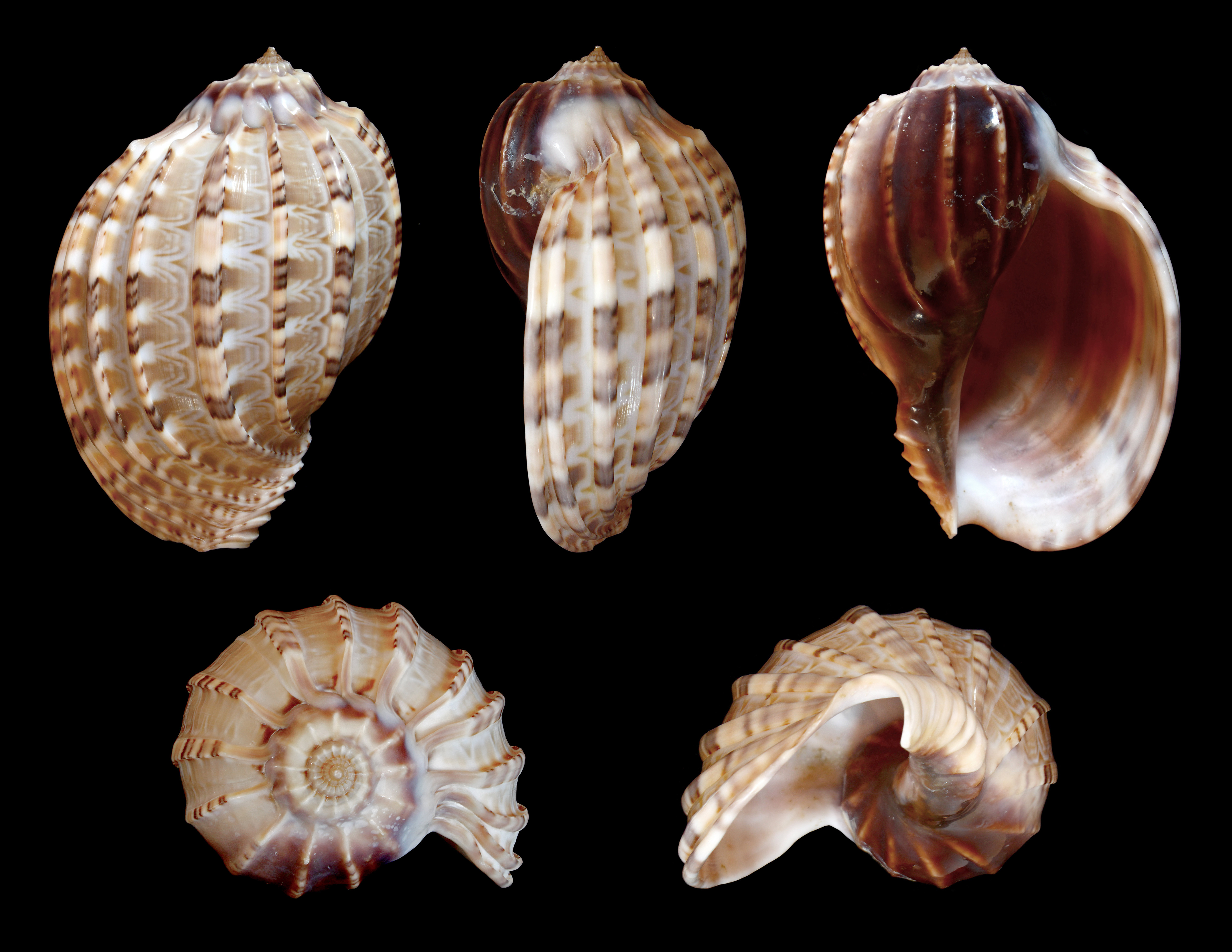 Articulate Harp; Length 9.5 cm; Originating from the Soutwest-Pacific; Shell of own collection, therefore not geocoded. Dorsal, lateral (right side), ventral, back, and front view.